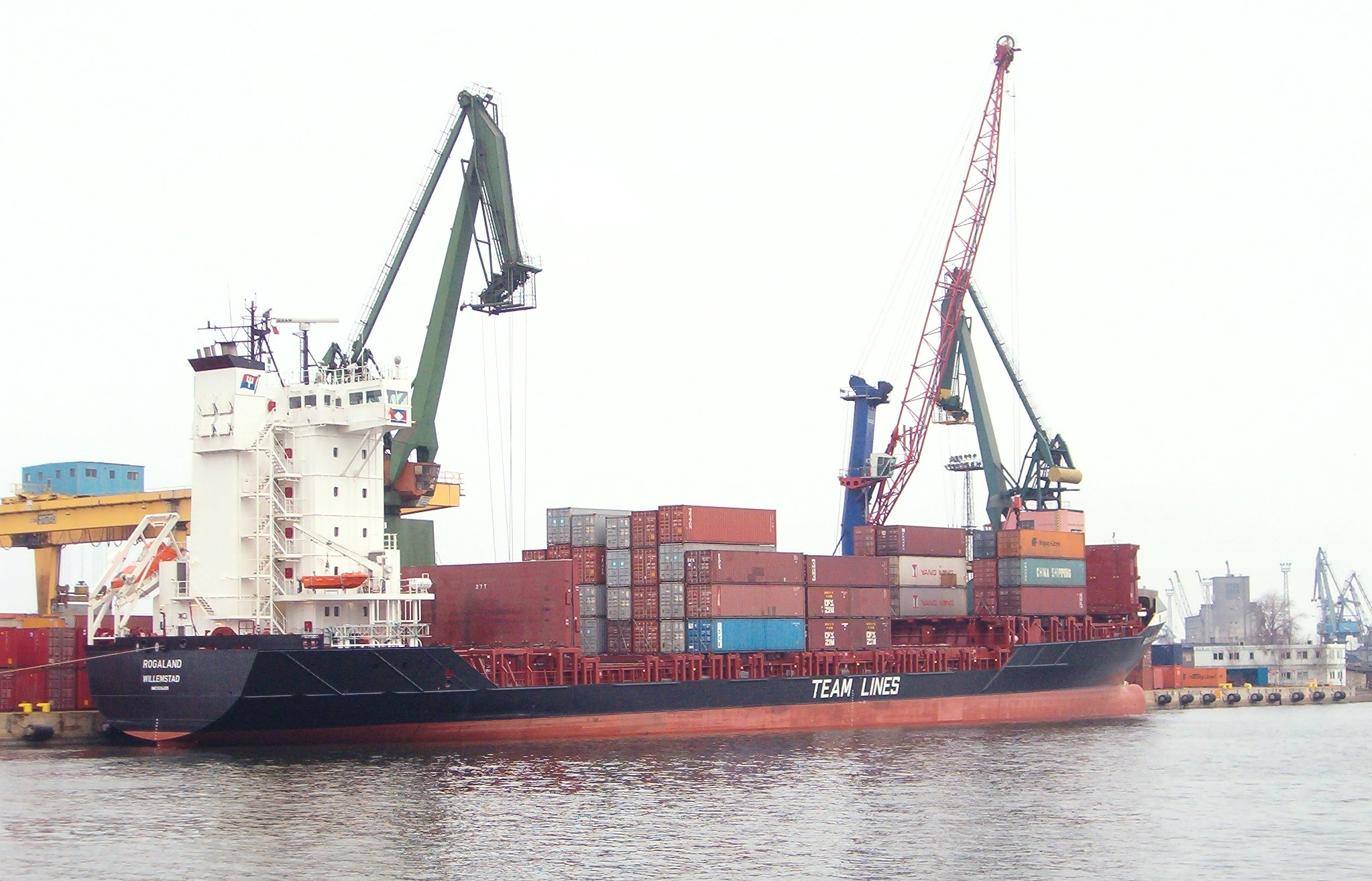 Container ship Rogaland during unloading in Port of Gdansk IMO Number: 9334105 MMSI Number: 306774000 Callsign: PJSV Length: 139 m Beam: 18 m